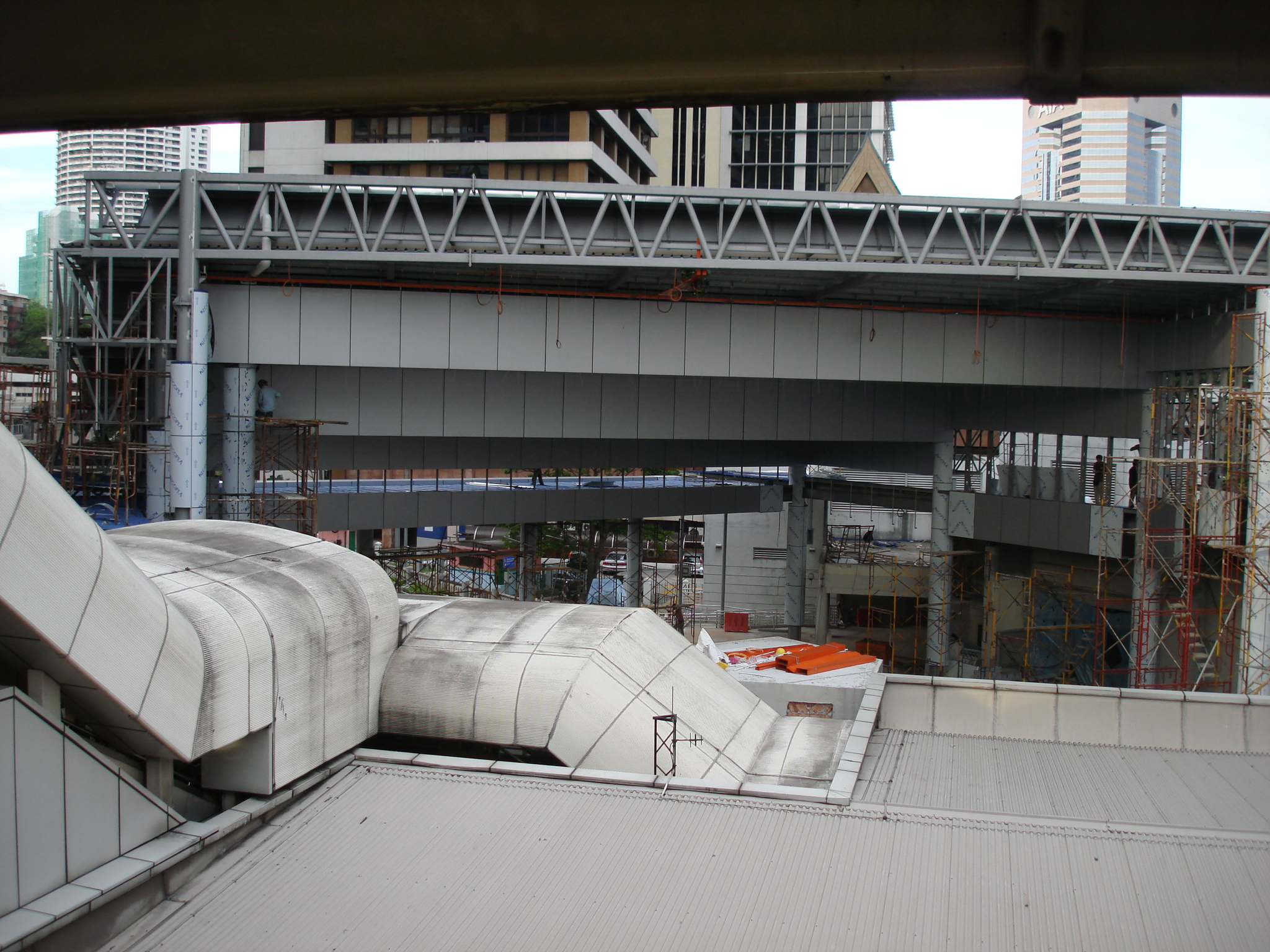 Plaza connecting the two rail stations under construction. Masjid Jamek, Kuala Lumpur, Malaysia